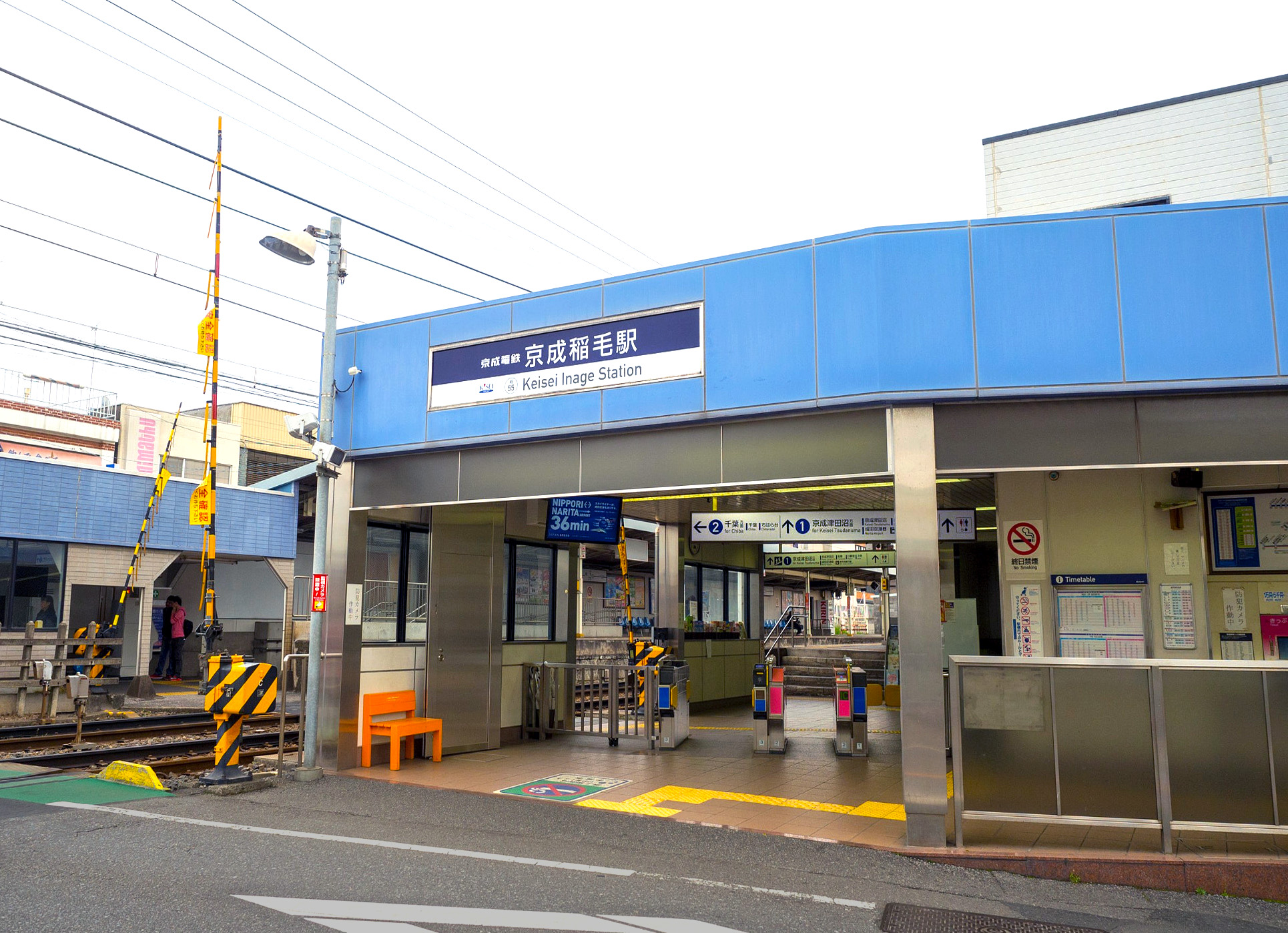 500px provided description: ????? [#railway ,#station]